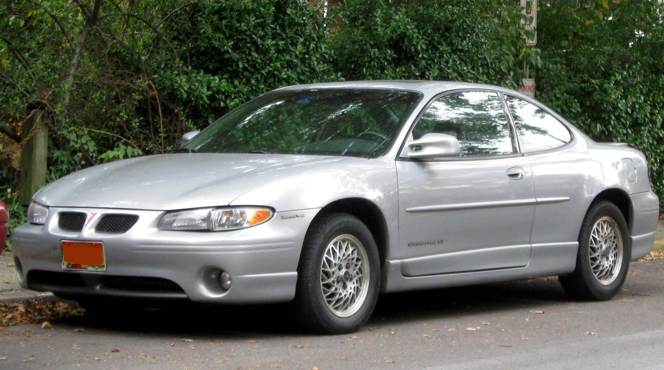 Pontiac Grand Prix photographed in College Park, Maryland, USA.